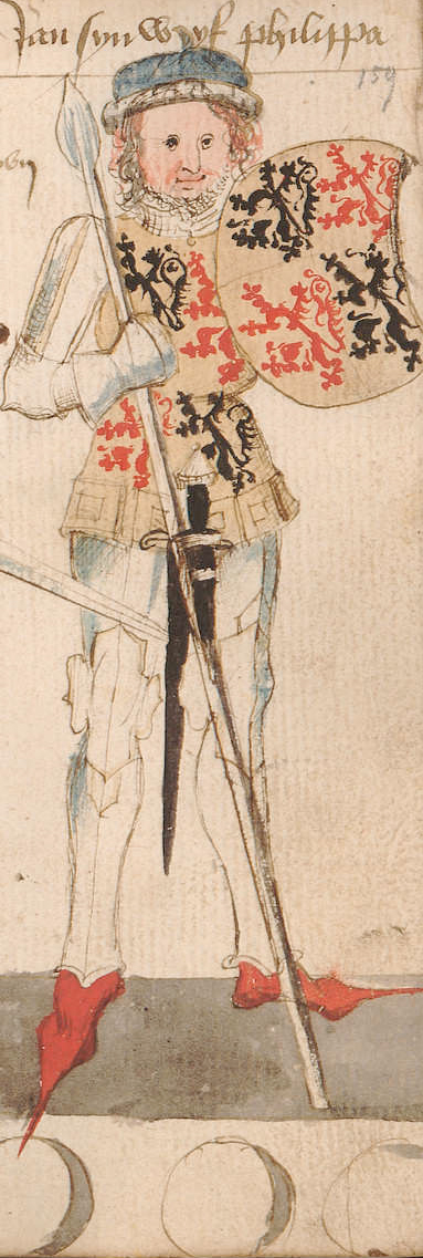 John II, Count of Holland